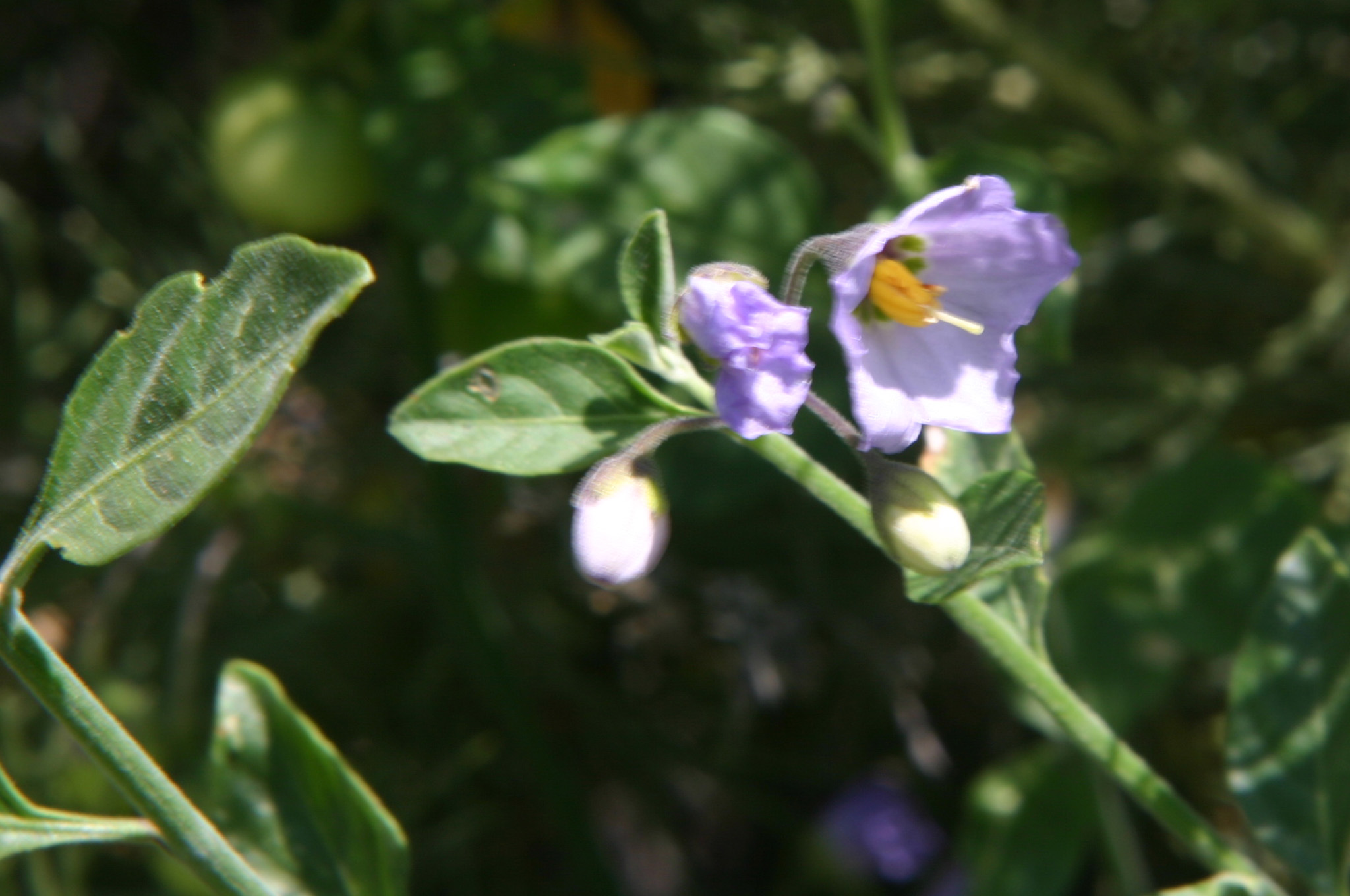 Solanum umbelliferum — Bluewitch. Taken at Sierra Azul Open Space Preserve, southern Santa Cruz Mountains, California. "Sorry not a great photo, but there don't seem to be any others of this species uploaded yet."